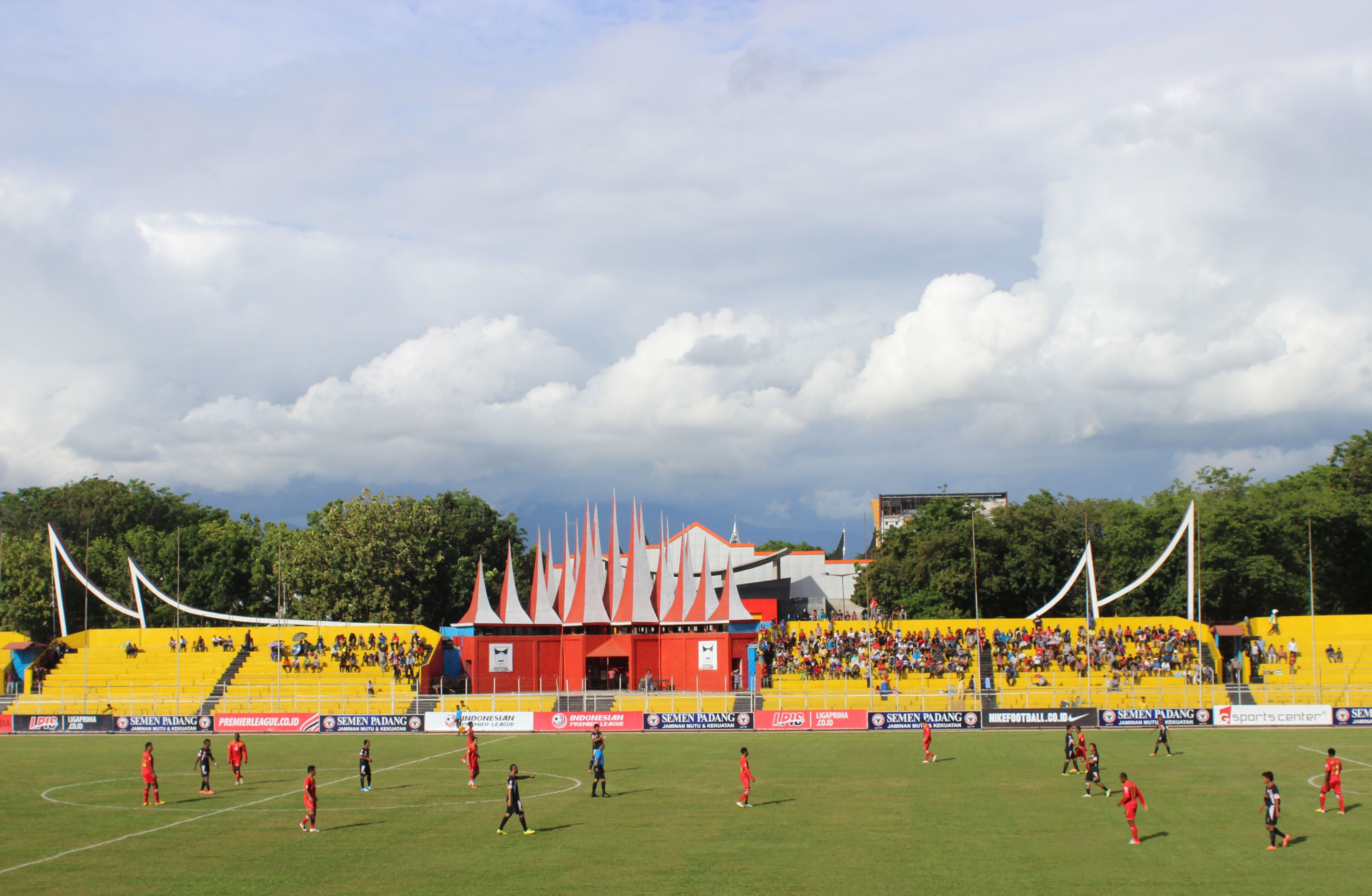 Stadion Haji Agus Salim east stand during Semen Padang vs Persepar Palangkaraya game in July 3rd, 2013.